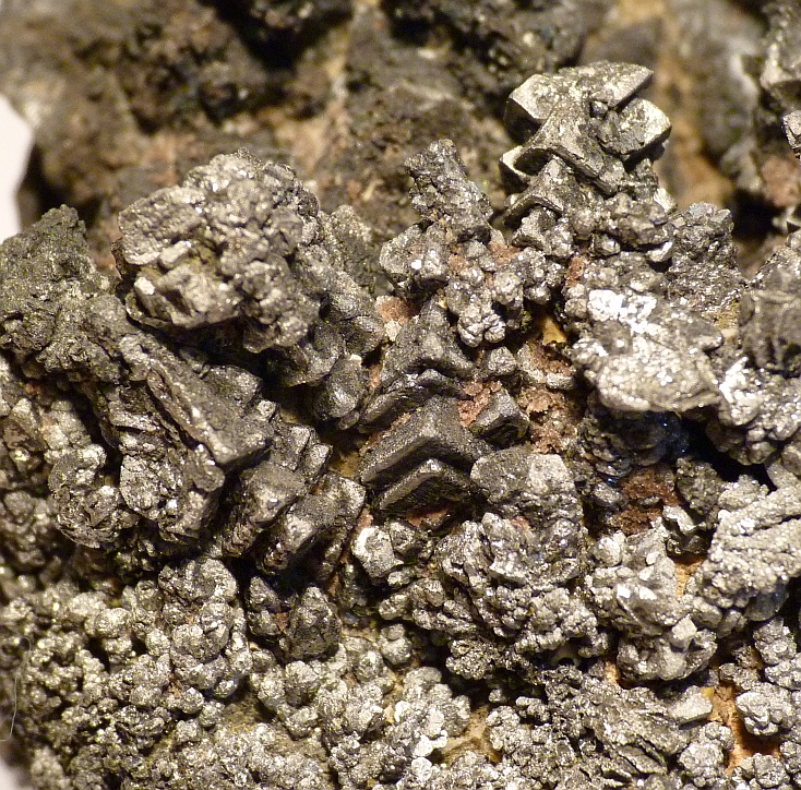 Skutterudite Locality: Schlema, Schlema-Hartenstein District, Erzgebirge, Saxony, Germany Field of view 4 cm. Specimen and photo Leon Hupperichs.